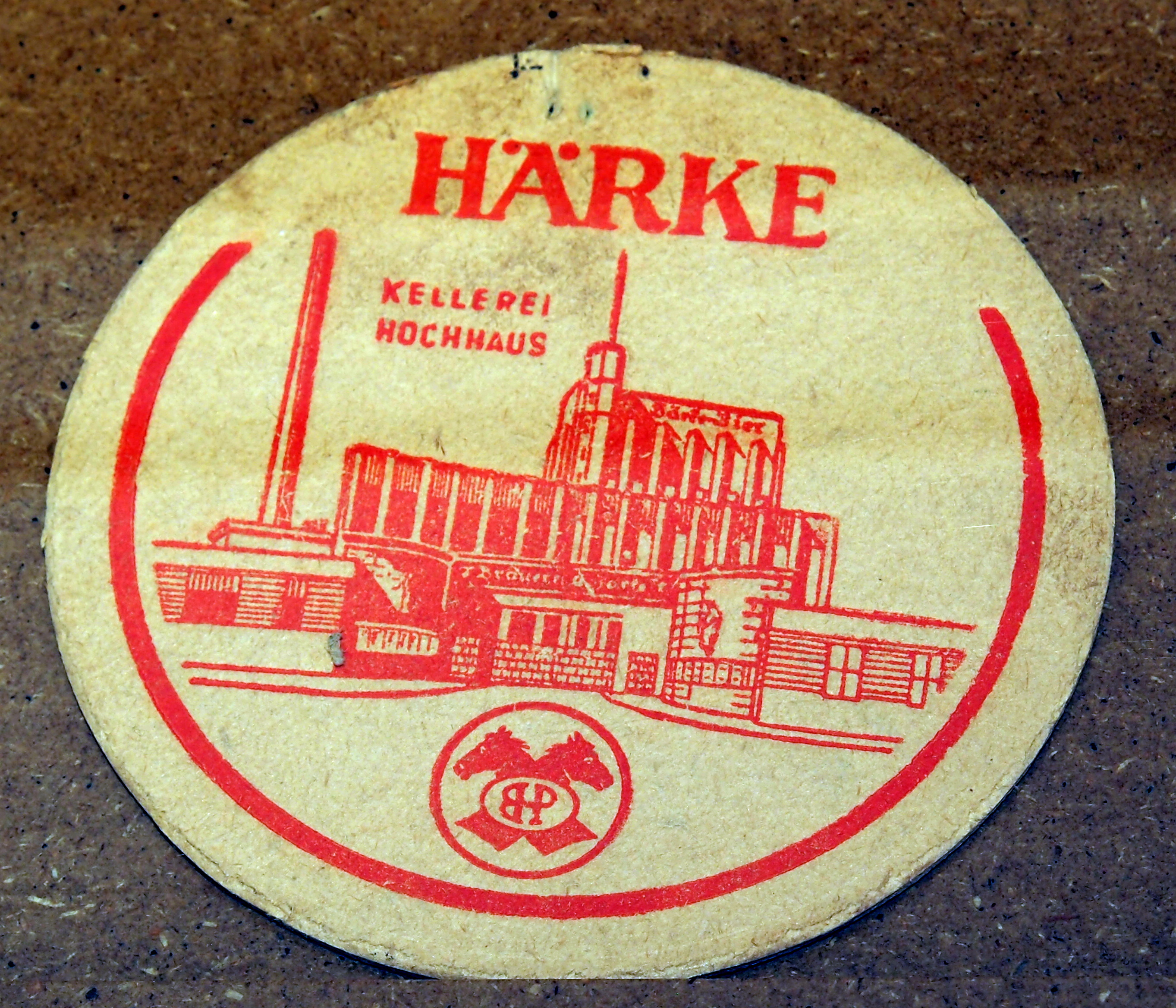 Härke. (Photographed through glass.)